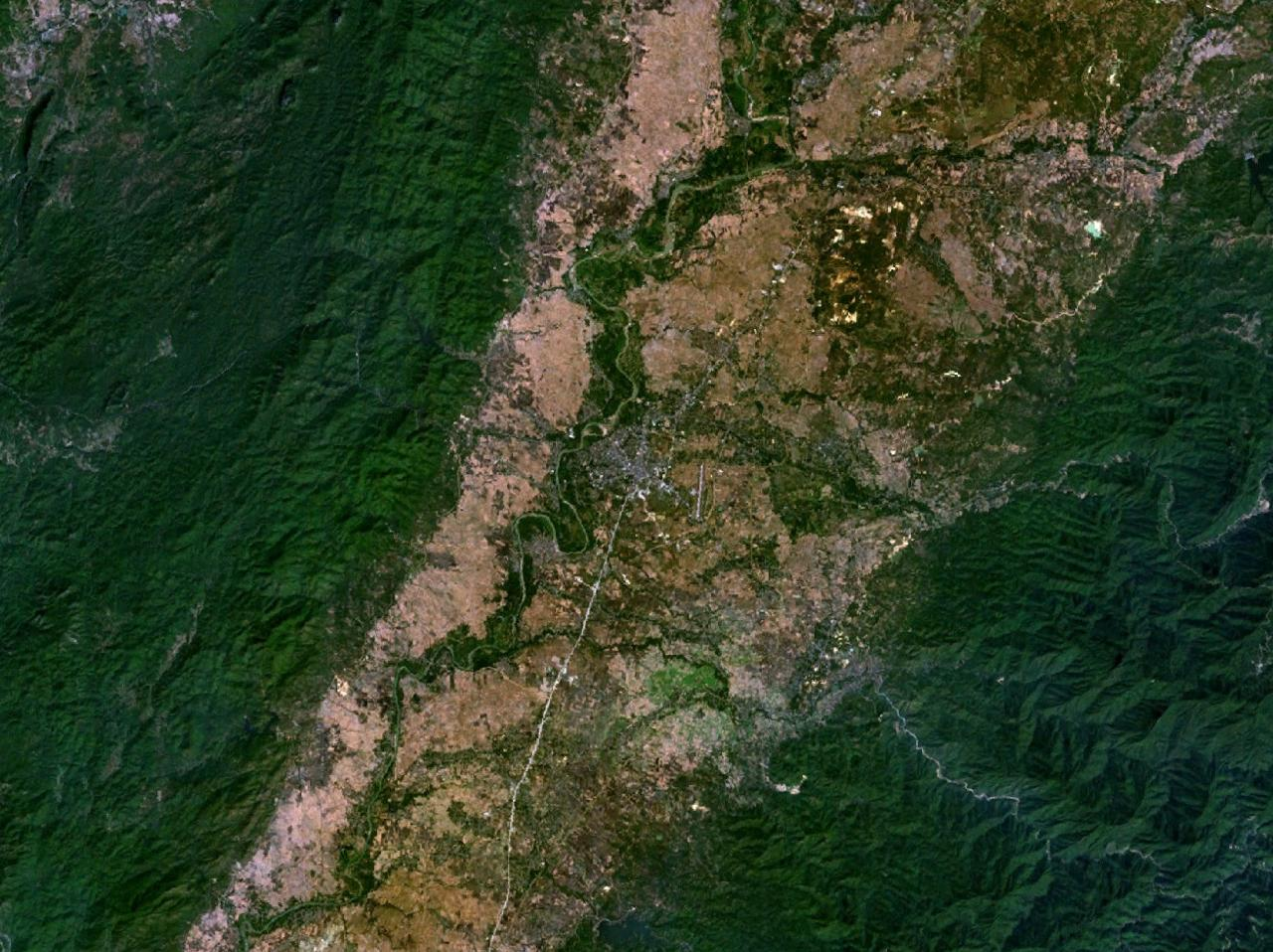 Phrae